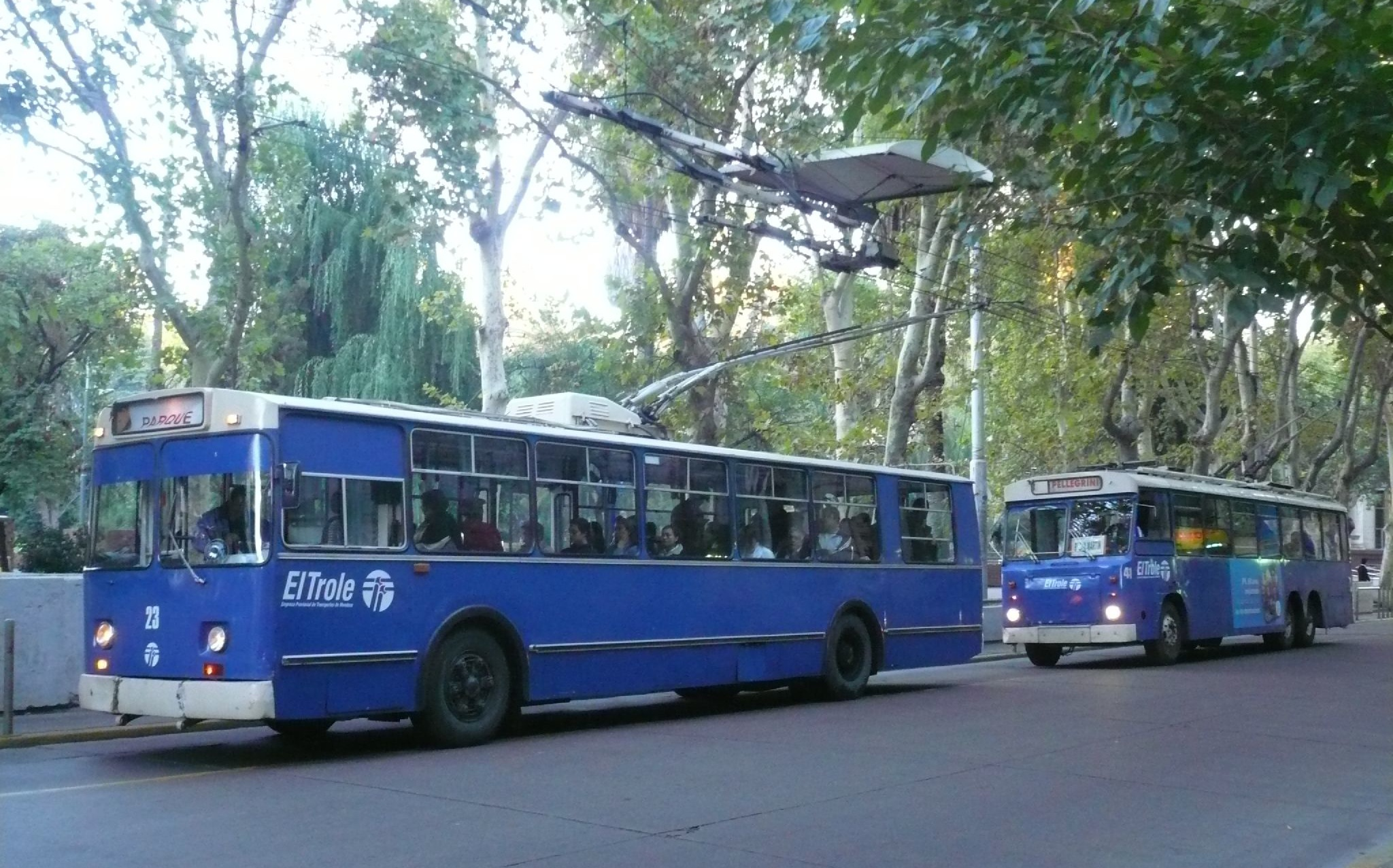 Two trolleybuses of the Mendoza, Argentina trolleybus system, southbound on Calle 9 de Julio just north of Calle Gutierrez (next to Plaza San Martín), in the city centre. No. 23 is a 1984 ZIU-9 (ex-53, renumbered in 1996). No. 41 is an ex-Solingen TS-type trolleybus (ex-34) built in the early 1970s, one of 79 acquired secondhand by Mendoza in 1988. Both types have since been retired, the last ZIUs in January 2009 and the last ex-Solingen trolleybuses in May 2010.